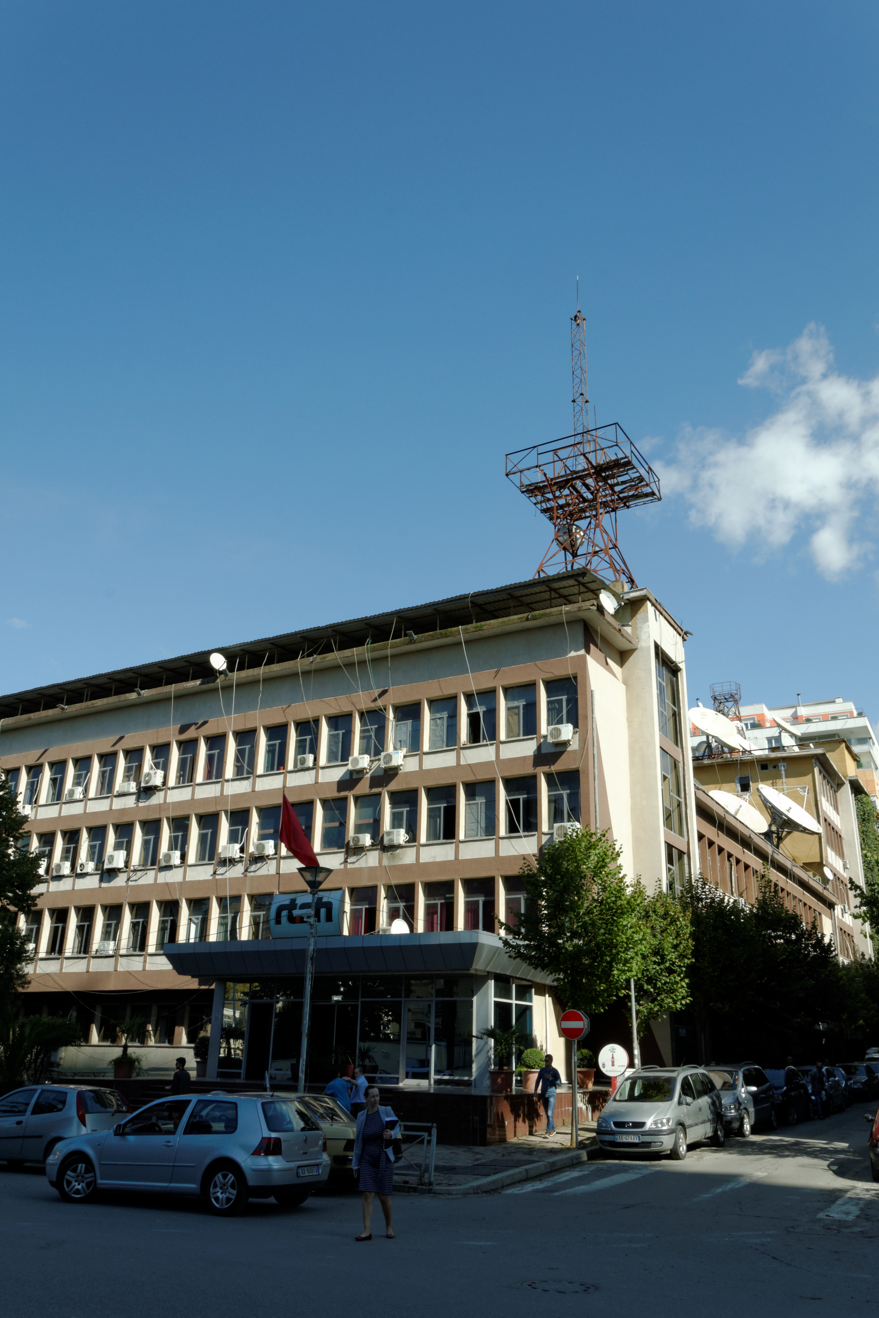 The headquarters of the National Albanian Radio and Television. Foto by Dritan Mardodaj.